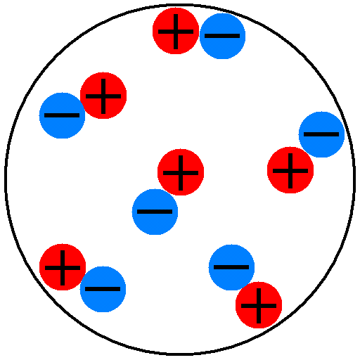 This diagrams shows the model of an atom invented by Philipp Lenard in 1903. The atom consists of "dynamids" in empty space. Each "dynamid" consists of an electron and a positive charge.